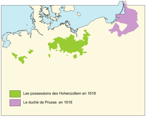 Prussia in 1618